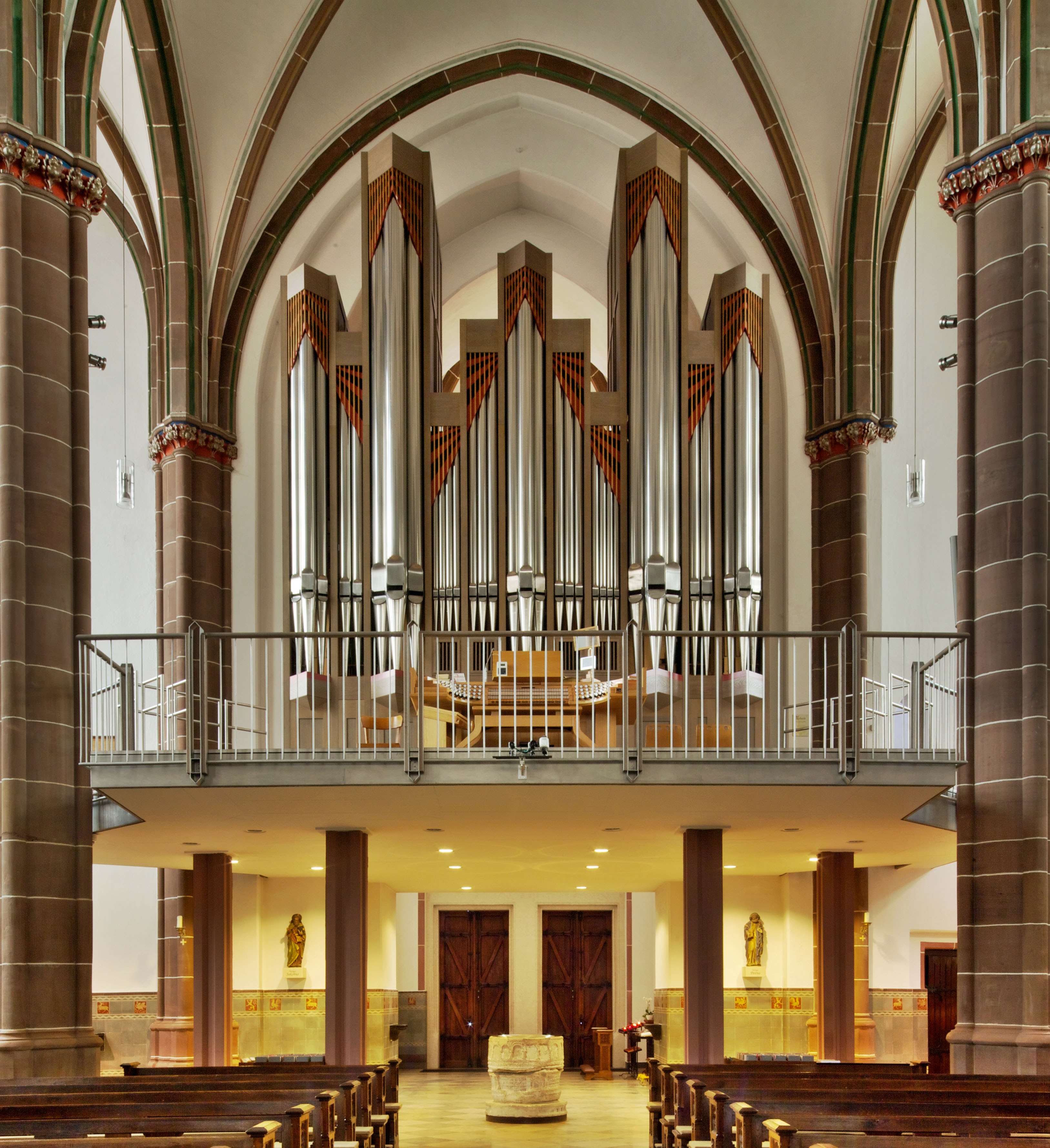 Rhede St. Gudula organ